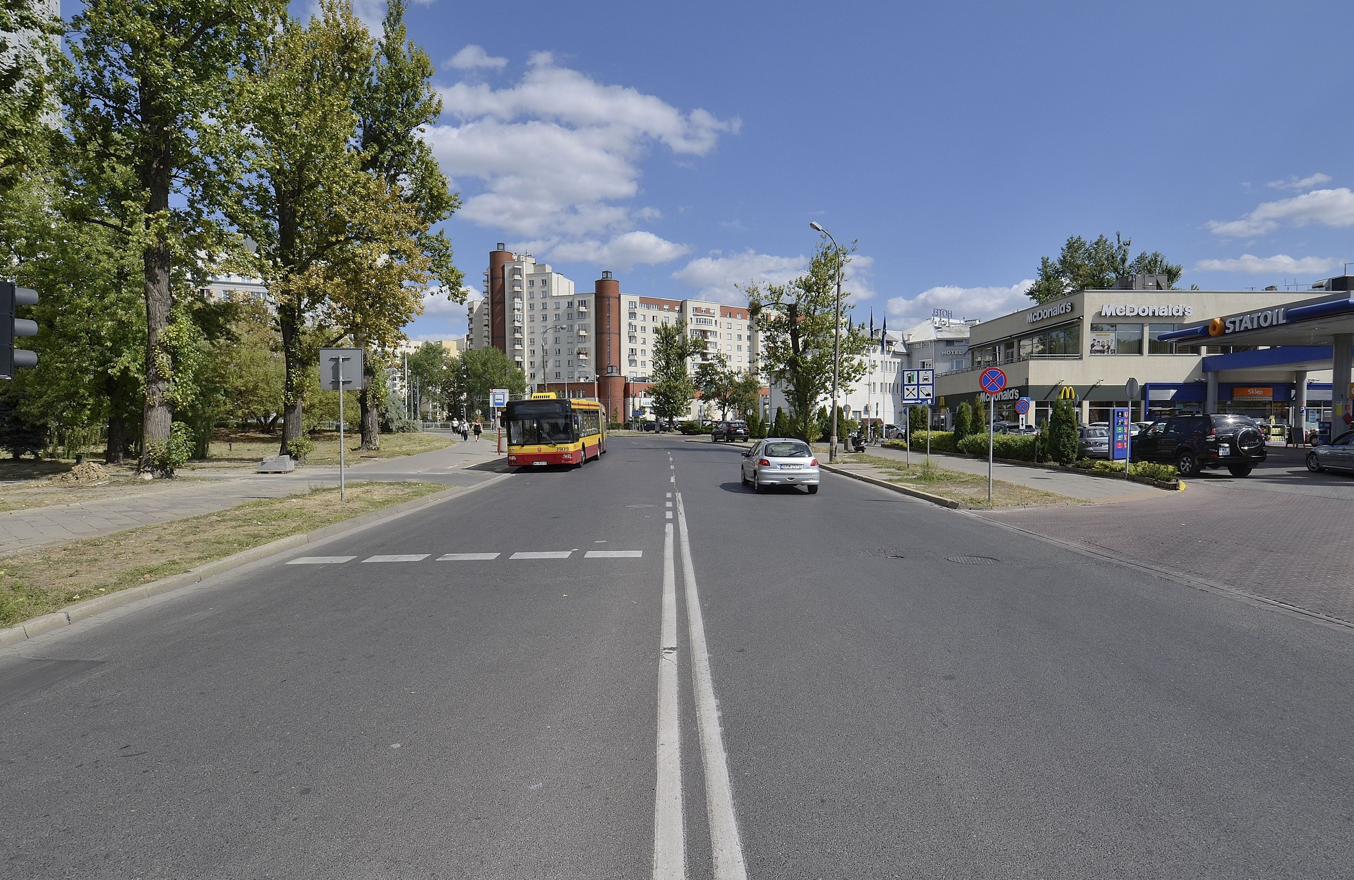 Dzika Street near Okopowa Street in Warsaw